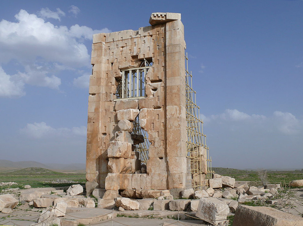 Old Achaemenian temple at Pasargadae, said to be the "Prison of Salomon" (Zendan-é Salman). Iran, Fars, April 2007.